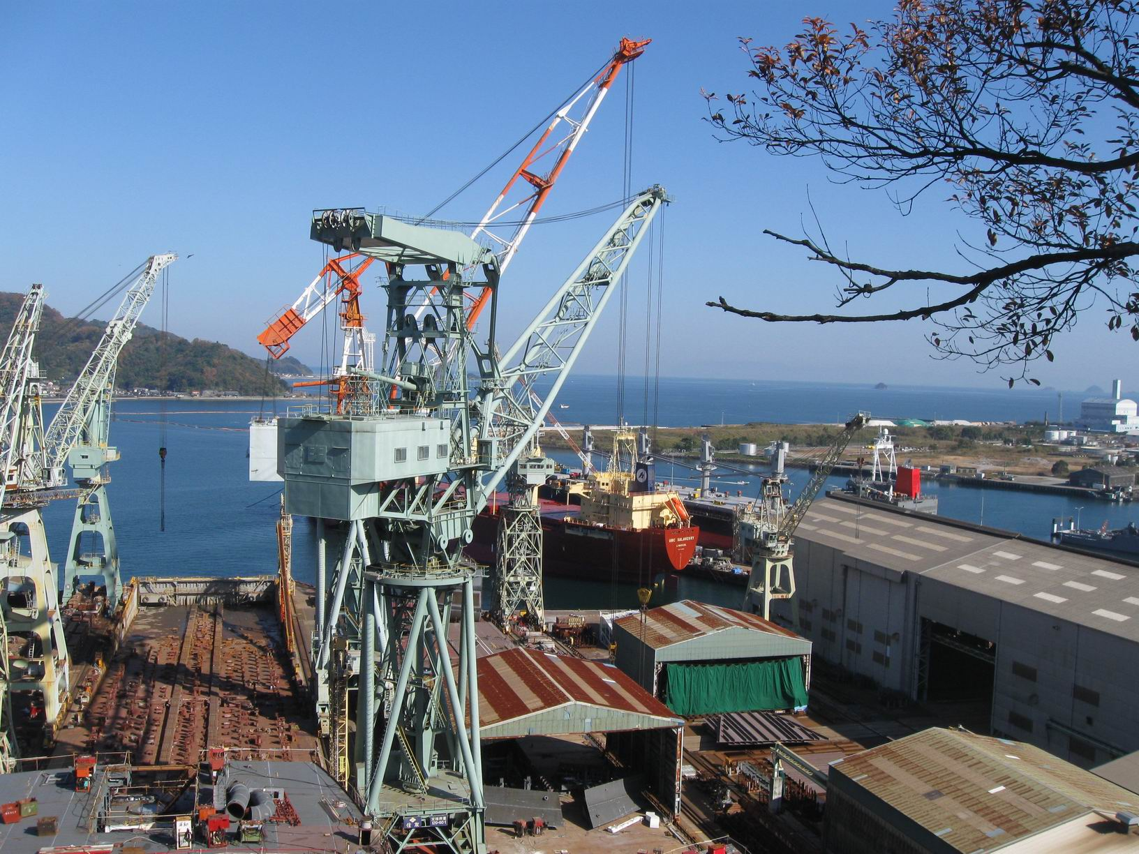 Saiki Heavy Industries view from Nooka Mt. East View Point